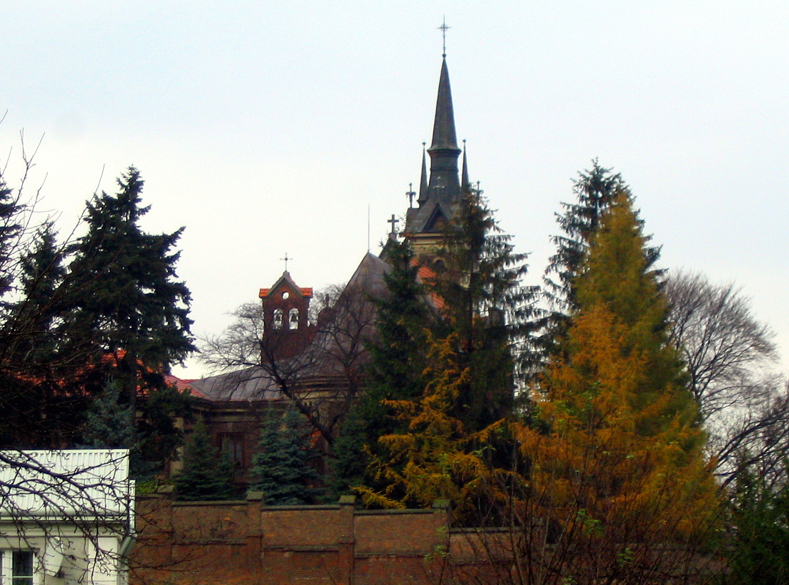 Cloister of Carmelite Sisters in Przemyśl, Tatarska St.